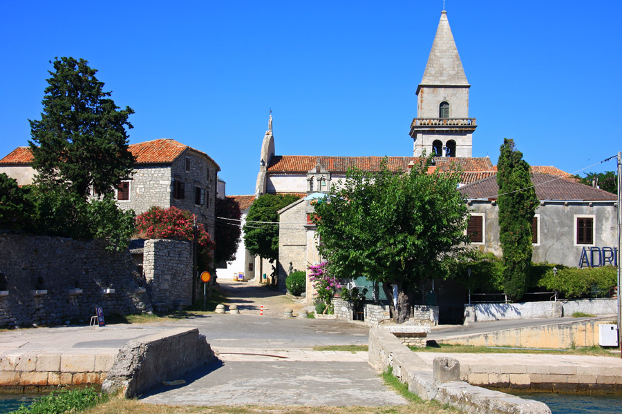 View of Osor, location at the southern end of the island of Cres, seen from the shore of the island of Lošinj. In the foreground the old abandoned bridge.